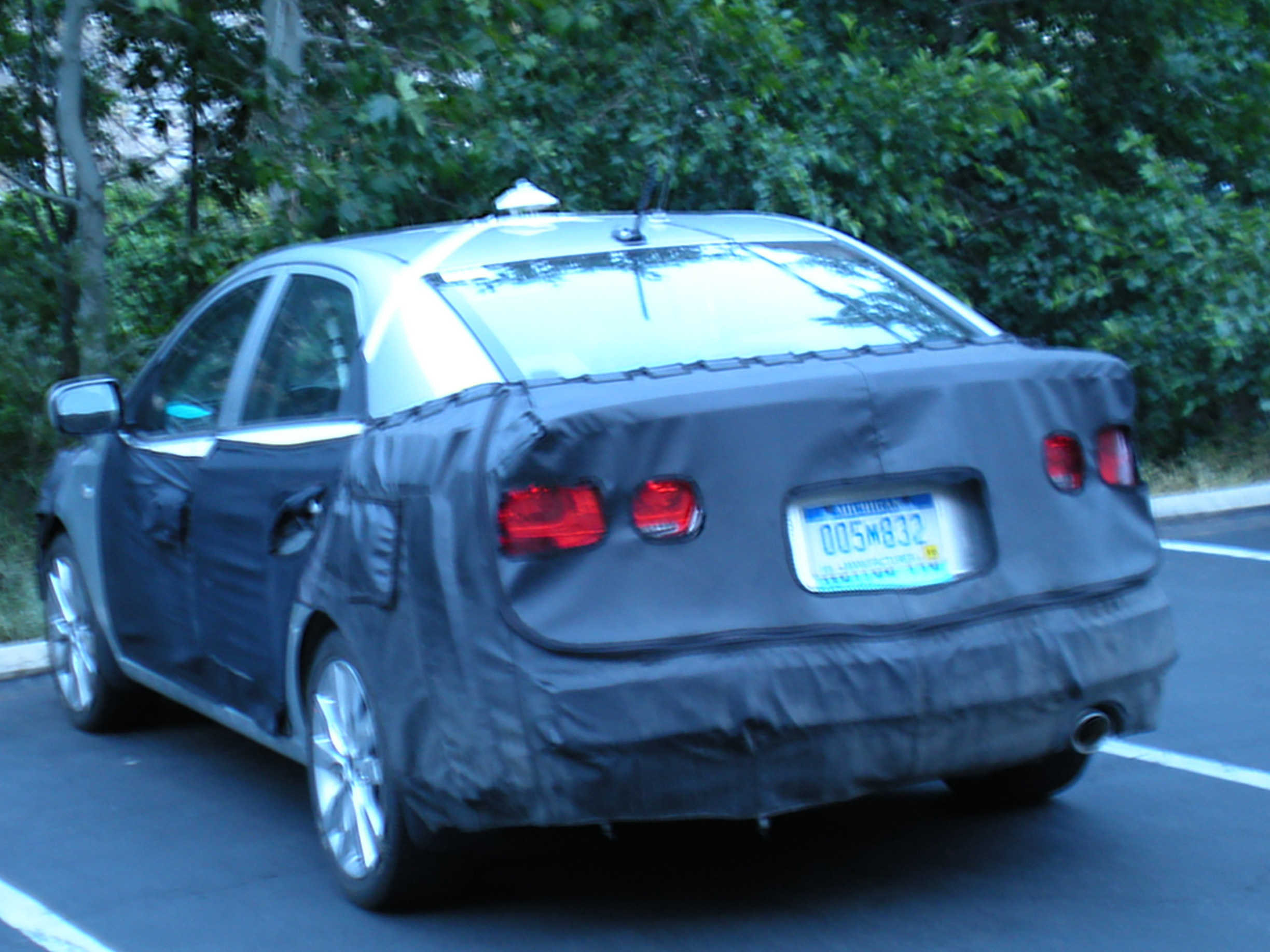 We get all kinds of test vehicles up on Tramway road. Most do not stop for long, and all are wrapped to prtoect their ID. Next to this test car was another vehicle with test equipment, however it was not wrapped. I will let you know the make in a few days, so guess away....